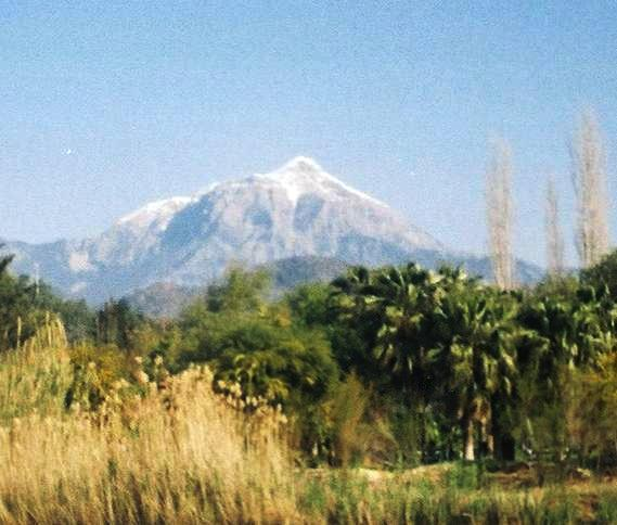 Tahtali Dag (Turkish Olympus) as seen from the Cirali beach, Turkey